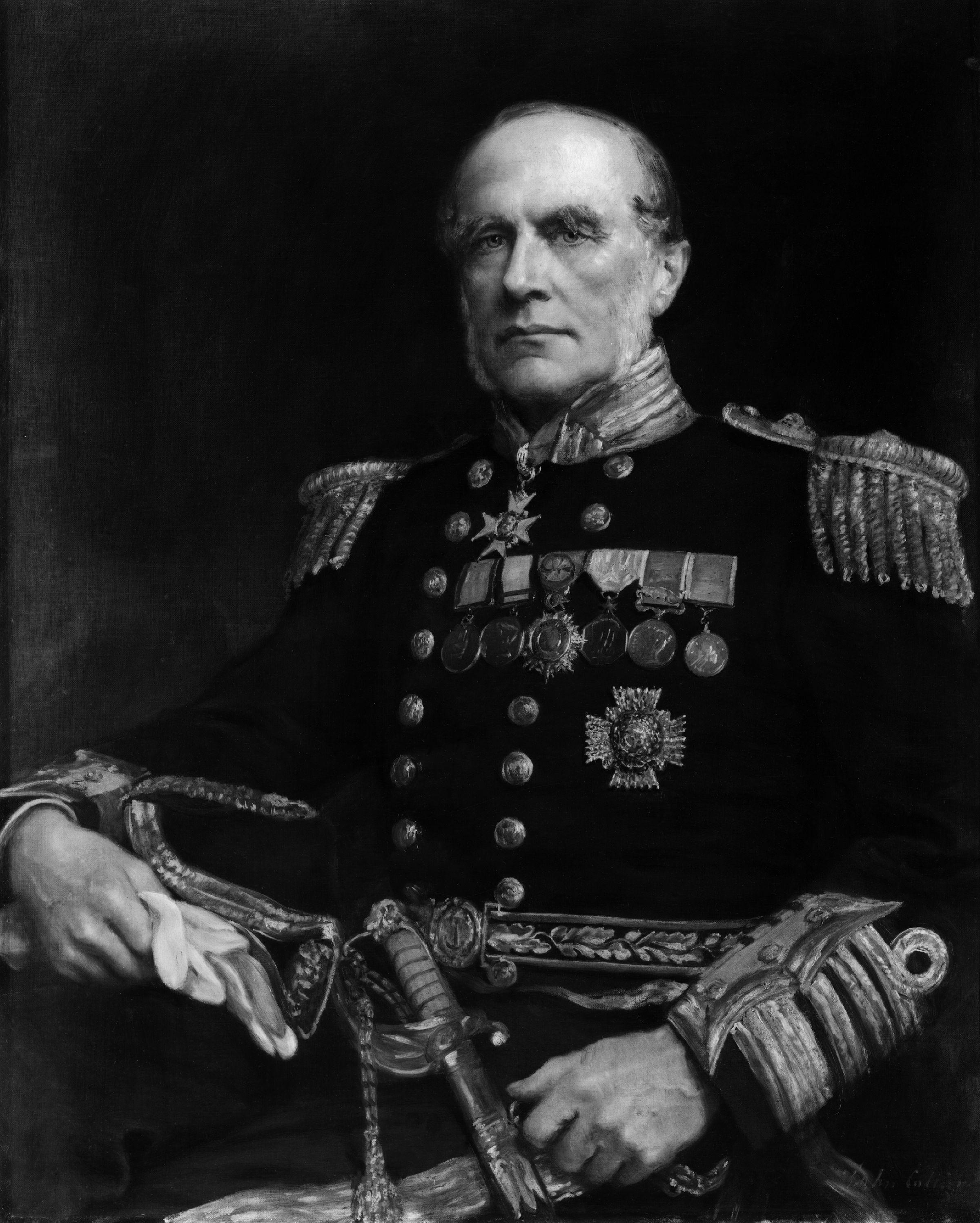 Sir Edward Augustus Inglefield, by John Collier (died 1934). All images in this batch have been confirmed as author died before 1939 according to the official death date listed by the NPG.